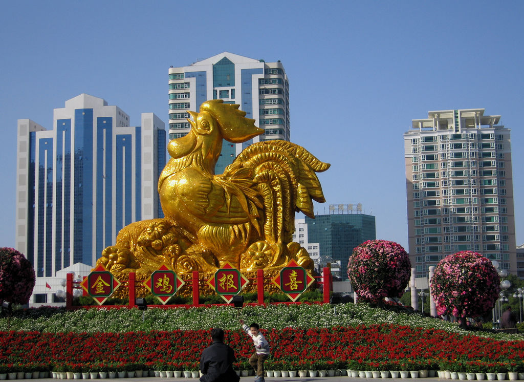 Shantou, Chinace Pose, Jackie!